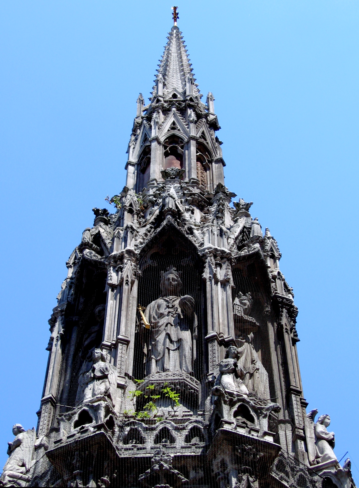 The Victorian replacement Eleanor Cross at Charing Cross, London